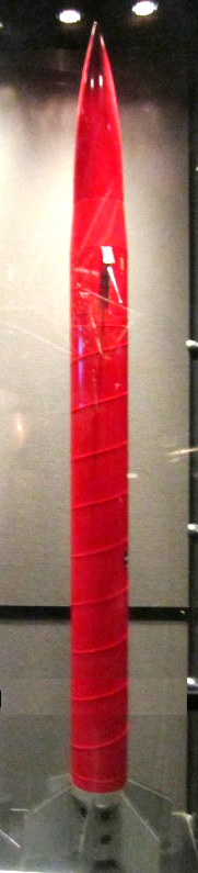 Petrel sounding rocket, World Museum Liverpool, England.